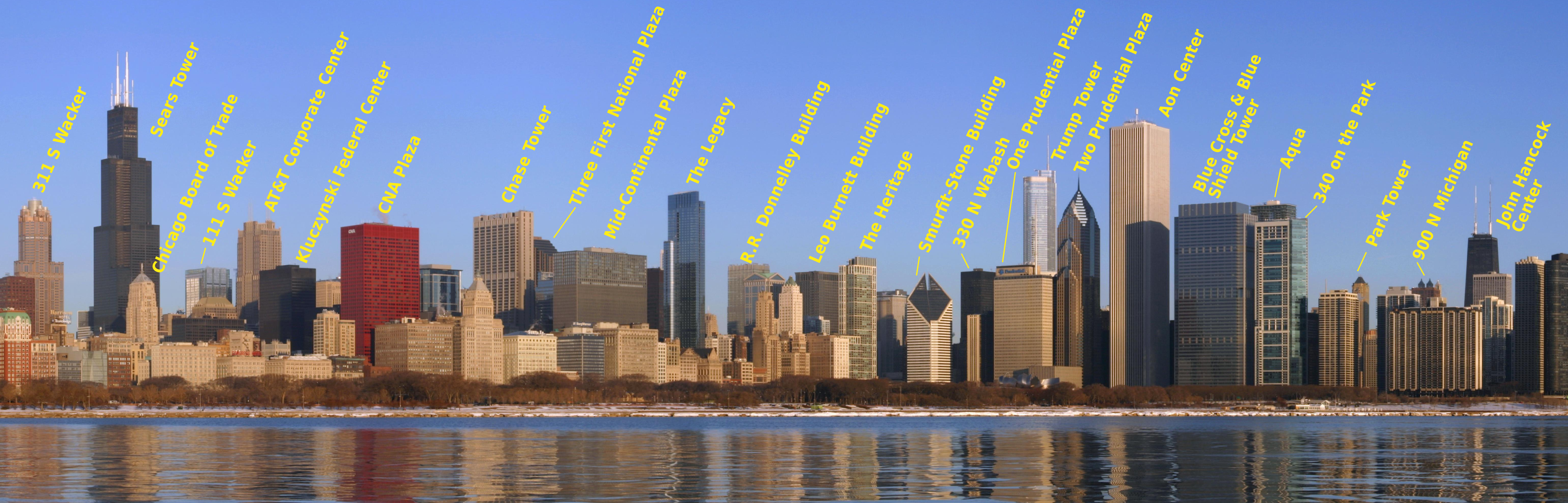 Chicago skyline view from Adler Planetarium, 19 February 2010, labeled